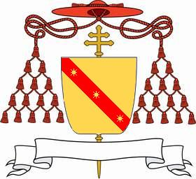 Coat of Arms of Cardinal Giovanni Arcimboldi